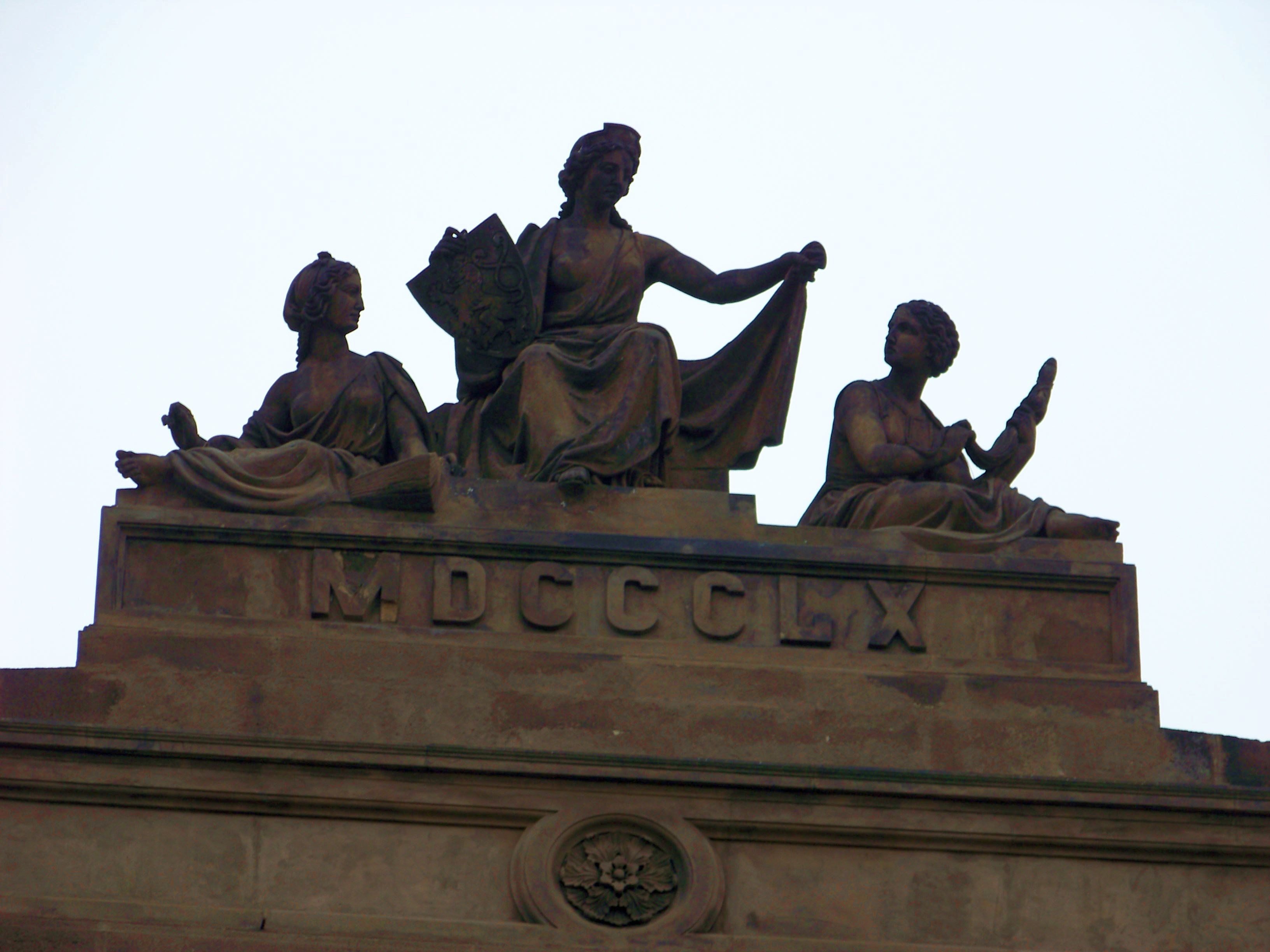 Prague-Old Town, the Czech Republic. Národní street, Academy of Sciences.